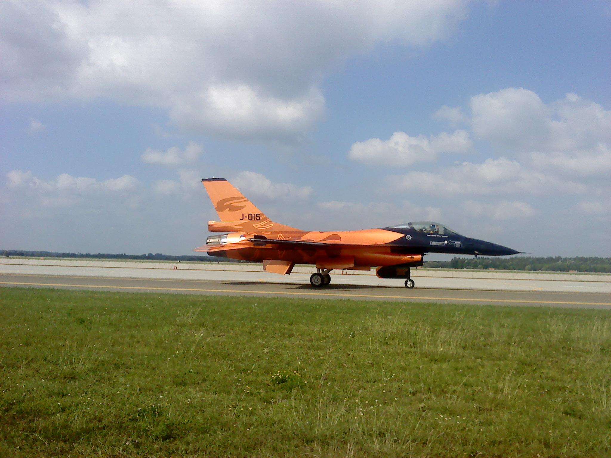 Dutch F-16 plane after a display at Kecskemét Air Show, 2010